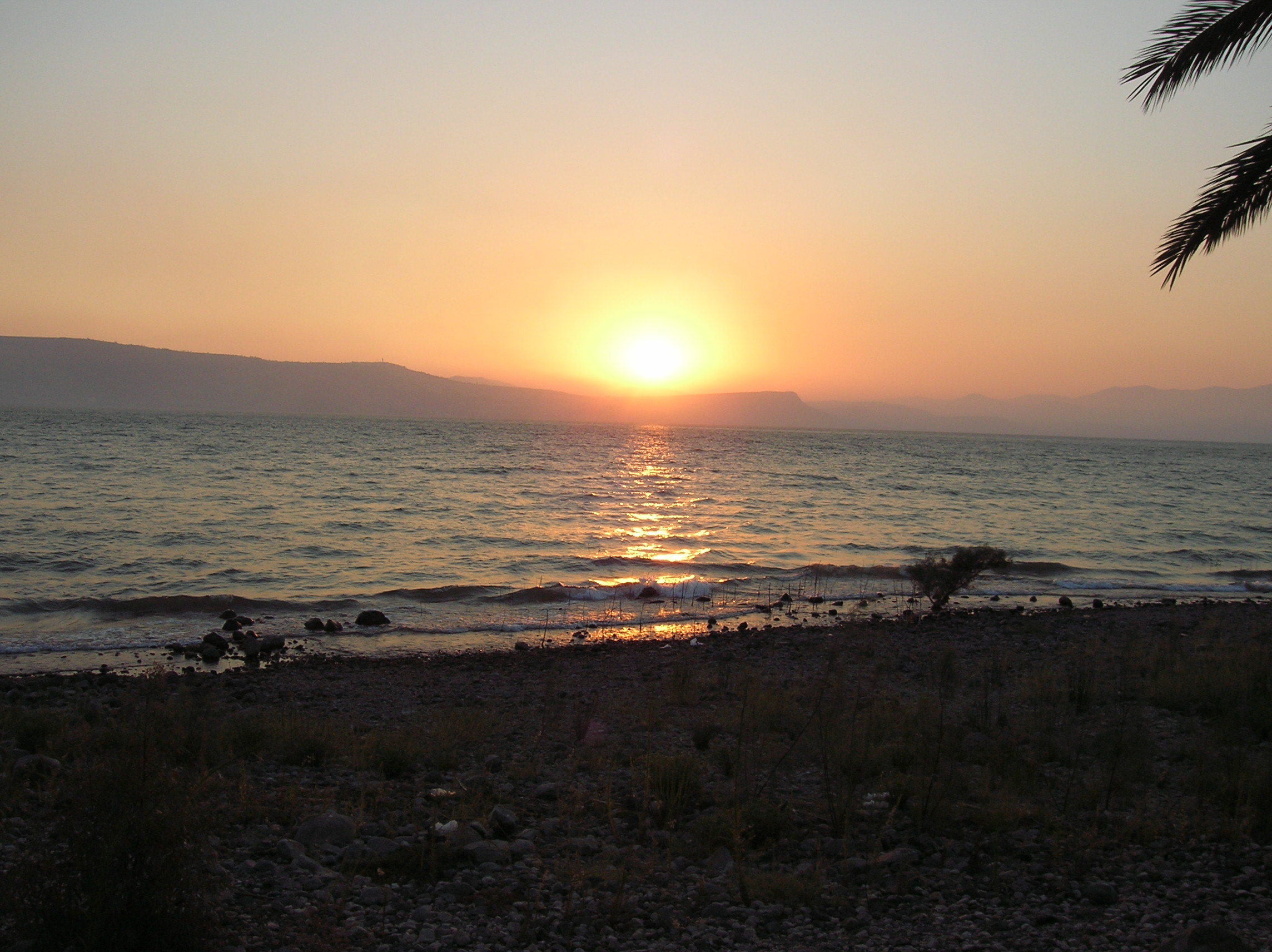 sunset over the Kinnereth, west of Ein Gev